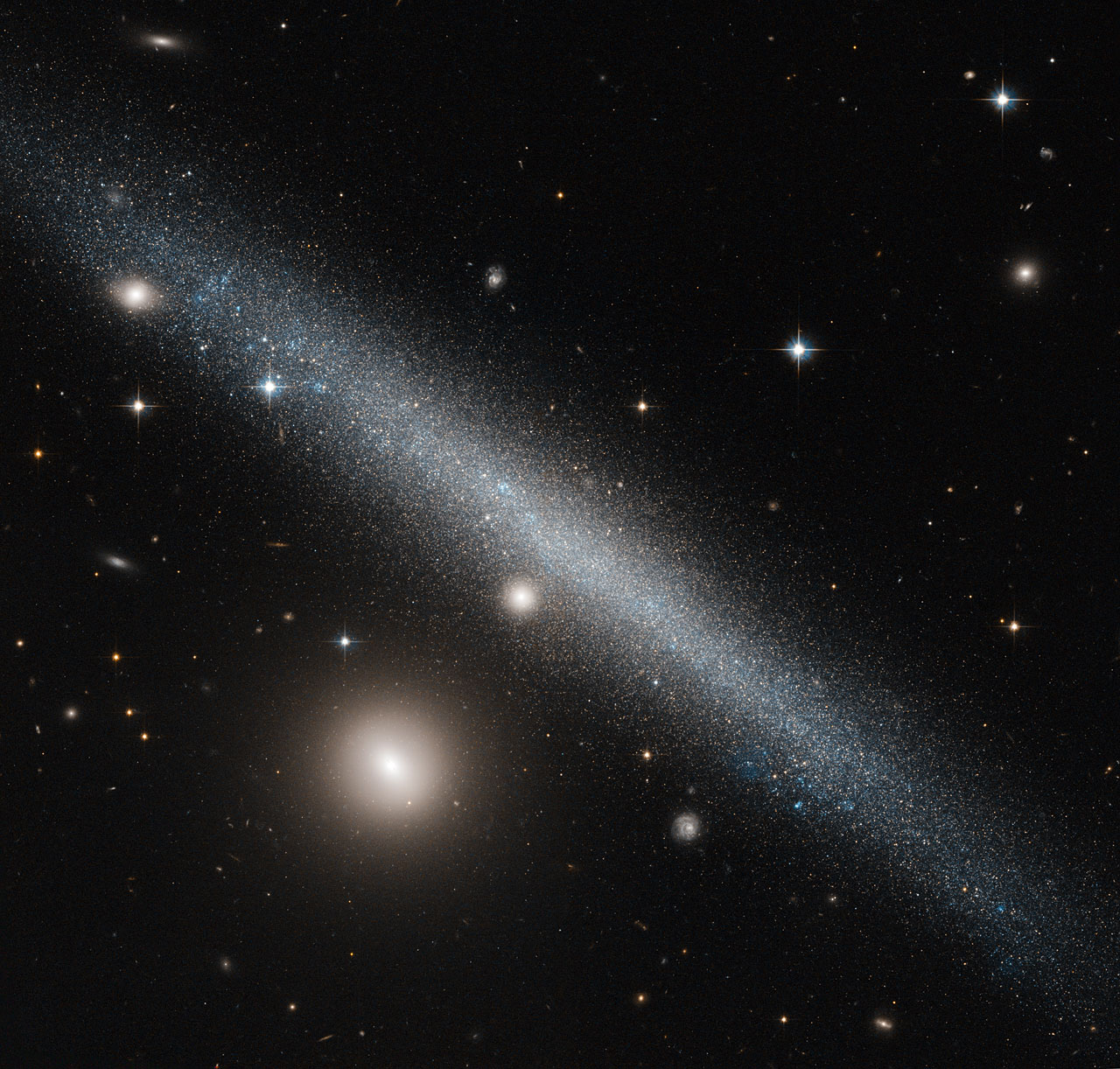 The galaxy cutting dramatically across the frame of this NASA/ESA Hubble Space Telescope image is a slightly warped dwarf galaxy known as UGC 1281. Seen here from an edge-on perspective, this galaxy lies roughly 18 million light-years away in the constellation of Triangulum (The Triangle). The bright companion to the lower left of UGC 1281 is the small galaxy PGC 6700, officially known as 2MASX J01493473+3234464. Other prominent stars belonging to our own galaxy, the Milky Way, and more distant galaxies can be seen scattered throughout the sky. The side-on view we have of UGC 1281 makes it a perfect candidate for studies into how gas is distributed within galactic halos — the roughly spherical regions of diffuse gas extending outwards from a galaxy’s centre. Astronomers have studied this galaxy to see how its gas vertically extends out from its central plane, and found it to be a quite typical dwarf galaxy. However, it does have a slightly warped shape to its outer edges, and is forming stars at a particularly low rate. A version of this image was entered into the Hubble's Hidden Treasures image processing competition by contestant Luca Limatola. Links Luca Limatola's Hidden Treasures entry on Flickr